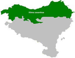 Climat Oceanic in Basque Country or Euskal Herria